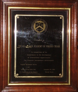 USA Ministry for Finances Diploma to the Russian Academy For Foreign Trade